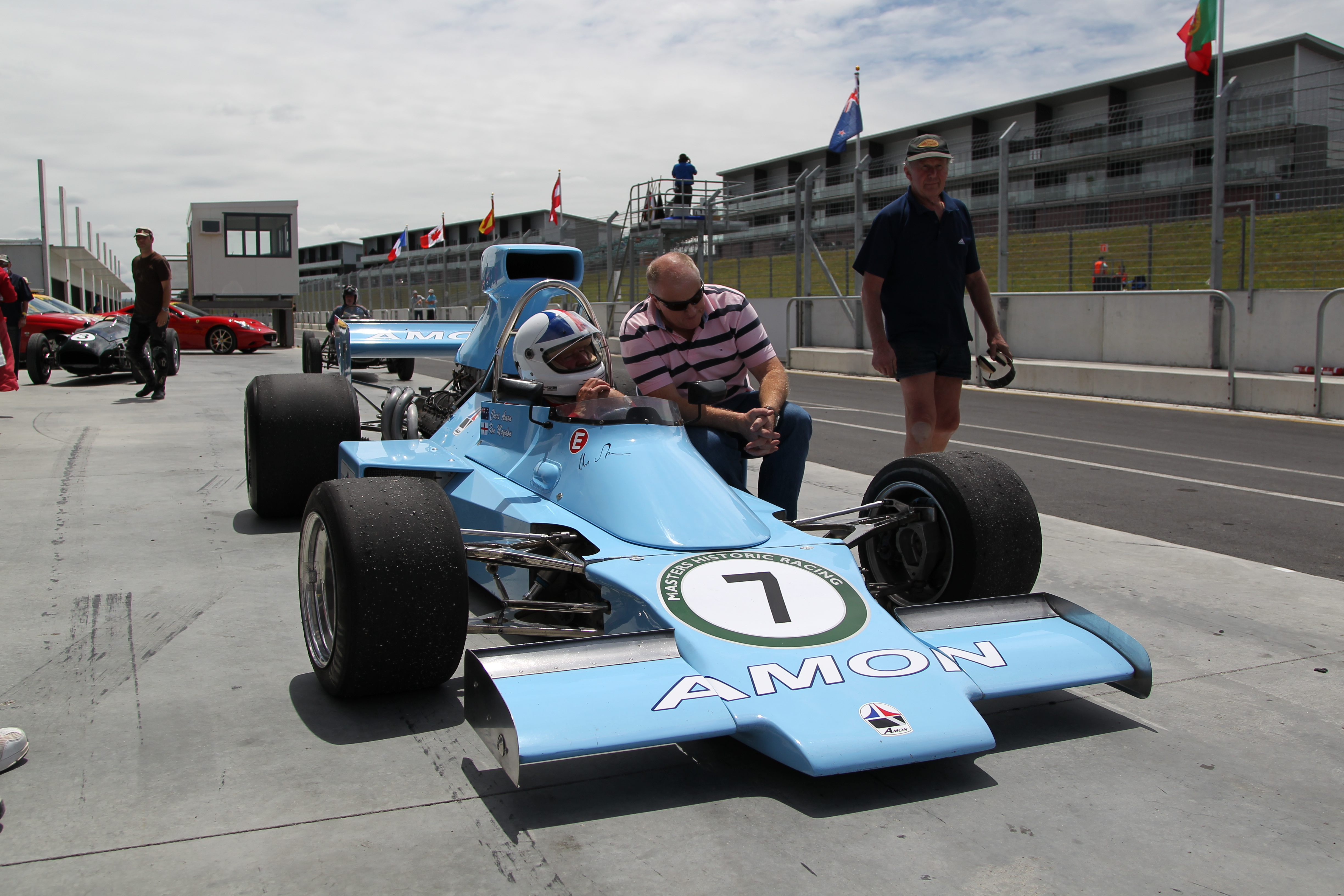 Chris Amon in the seat of the Amon-AF101 at the New Zealand Festival of Motor Racing Featuring Chris Amon at Hampton Downs Motorsport Park in January 2011. This event marked the first time that Chris had seen the Amon F1 car since its one and only season in Formula 1.